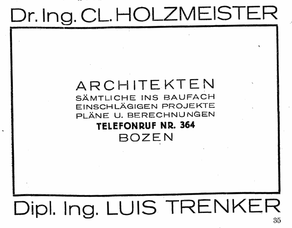 Advertisement for the architecture bureau of Holzmeister & Trenker, Phone directory of Bozen-Bolzano 1925